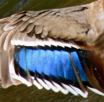 Speculum feathers of a male Mallard